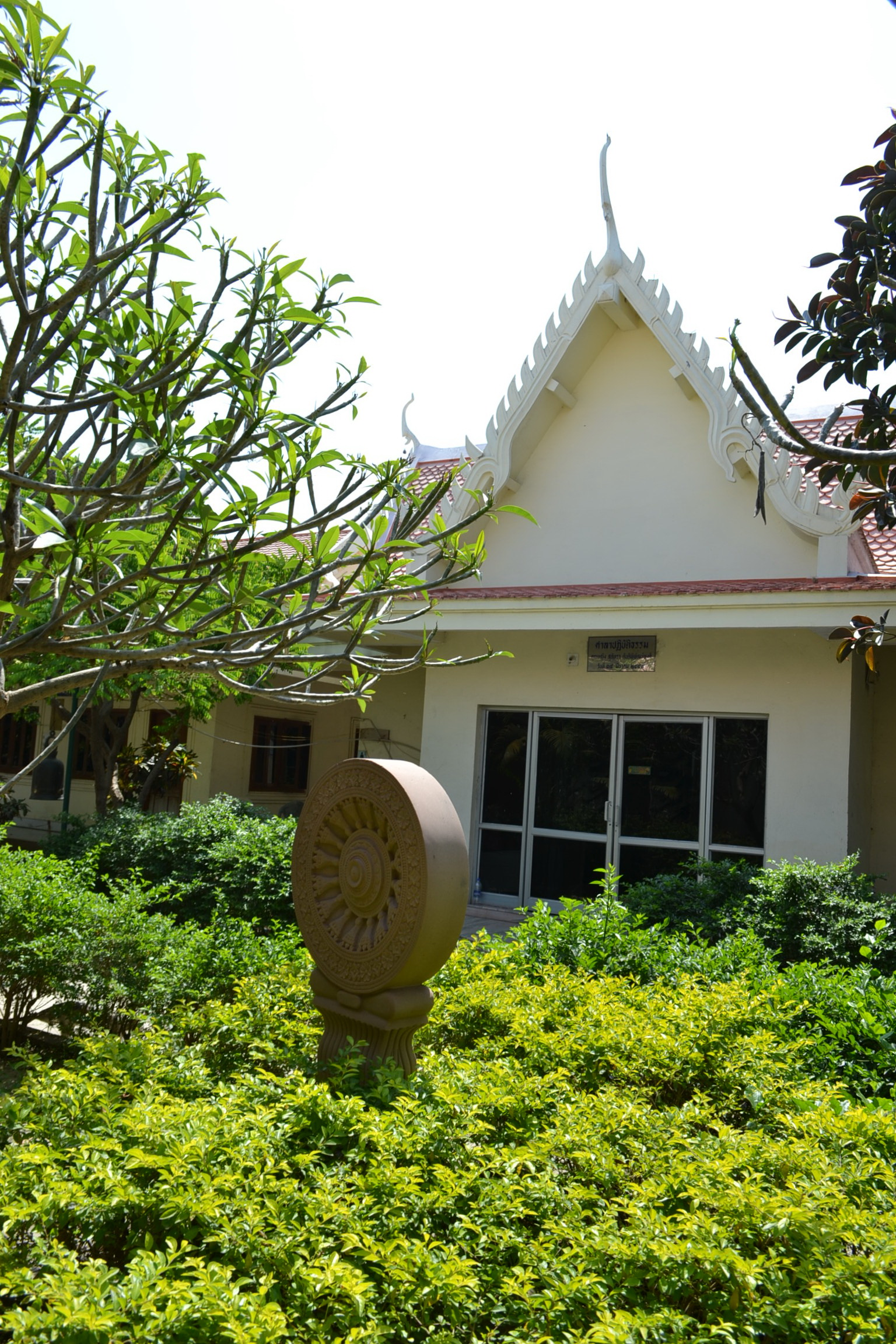 Wat Thaisirirajgir Location:Rajgir, India.